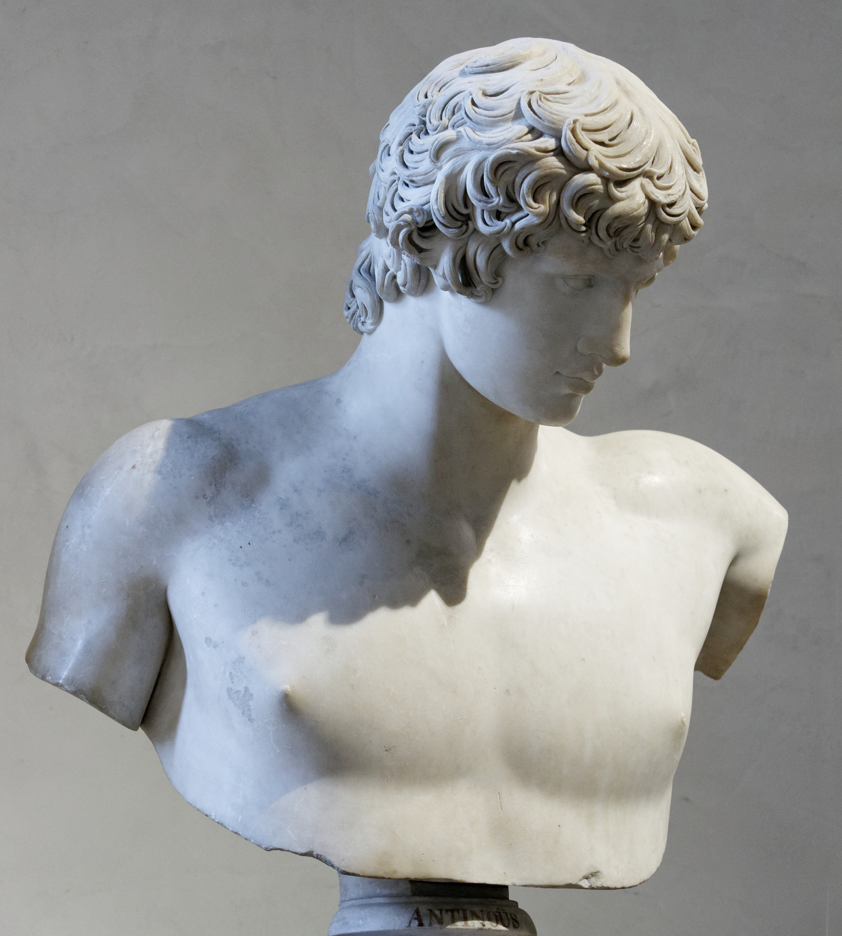 Bust of Antinous (117–138 CE). Modern copy after an original coming from the villa Adriana now in the Prado Museum.